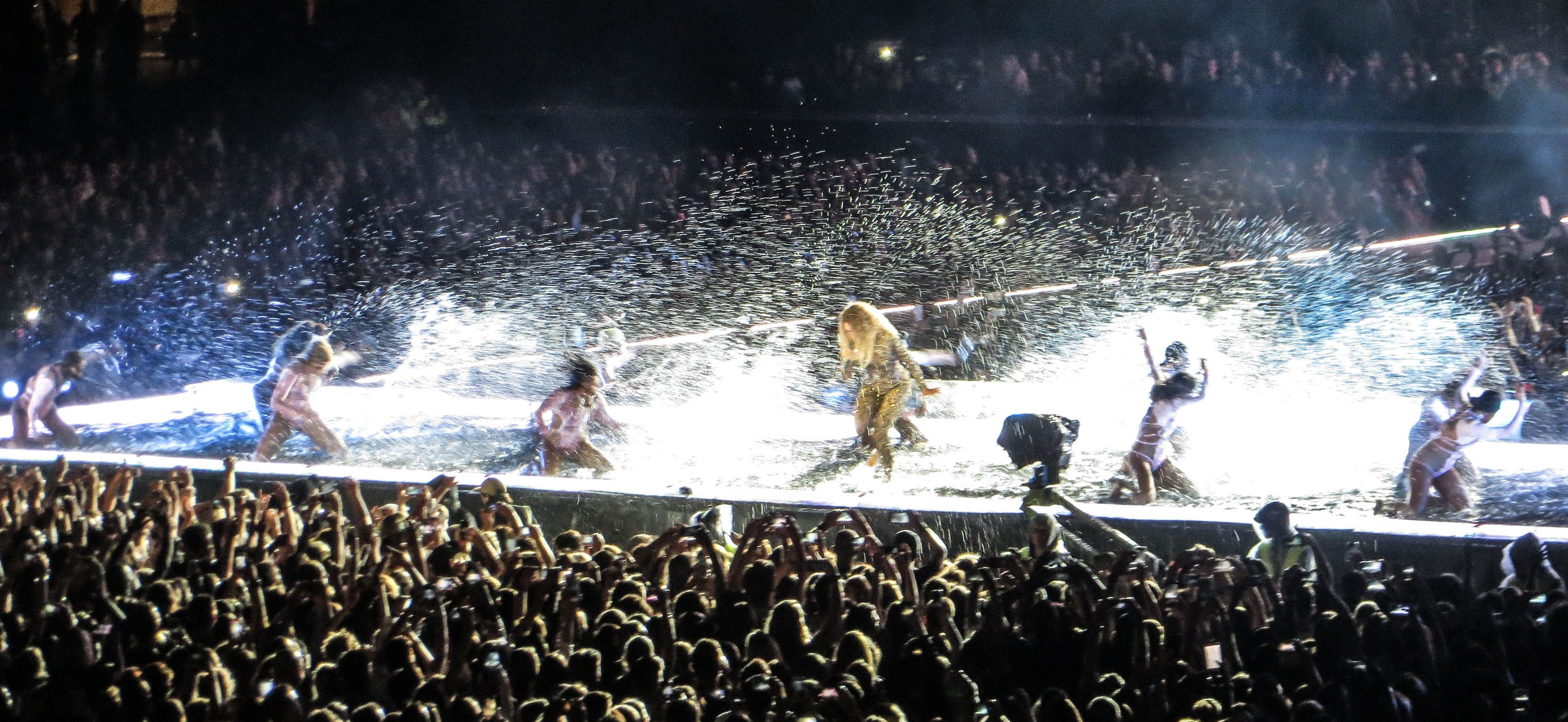 Beyoncé performing during The Formation World Tour in Brussels, Belgium, on July 31, 2016.